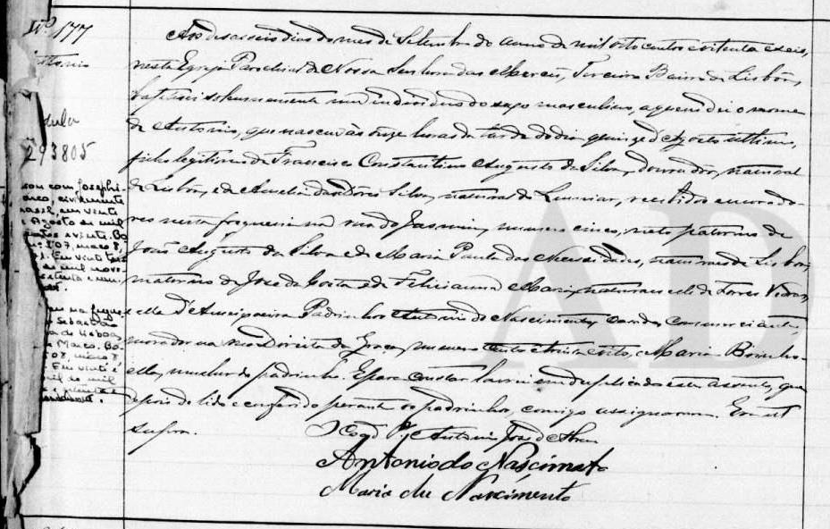 Baptism record (birth record) of the actor António Silva (1886-1971).